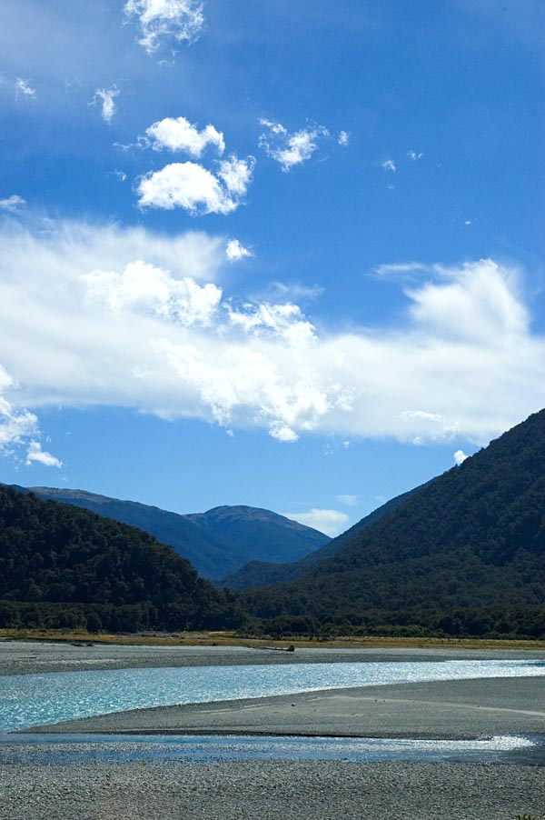 Haast River, New Zealand. Photograph by James Shook, who retains copyright and releases the image under the license shown below.